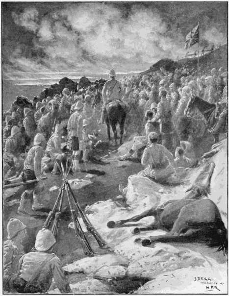 General Ian Hamilton praises a regiment of the Gordon Highlanders after their Doornkop victory